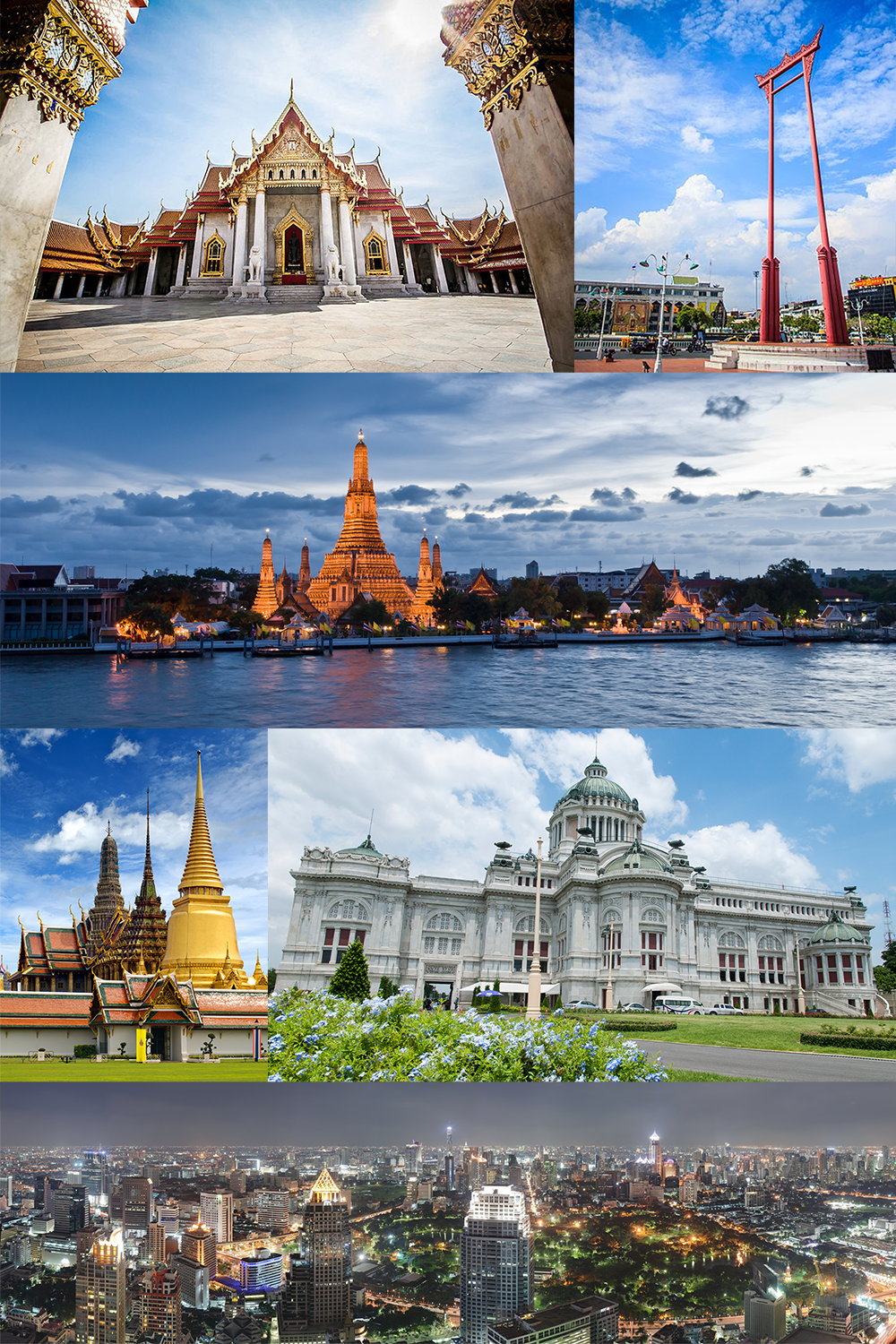 Photo montage of Bangkok—Clockwise from top: Wat Benchamabophit; the Giant Swing; Wat Arun; Ananta Samakhom Throne Hall; Bangkok at night over the Lumpini Park area; and Wat Phra Kaeo